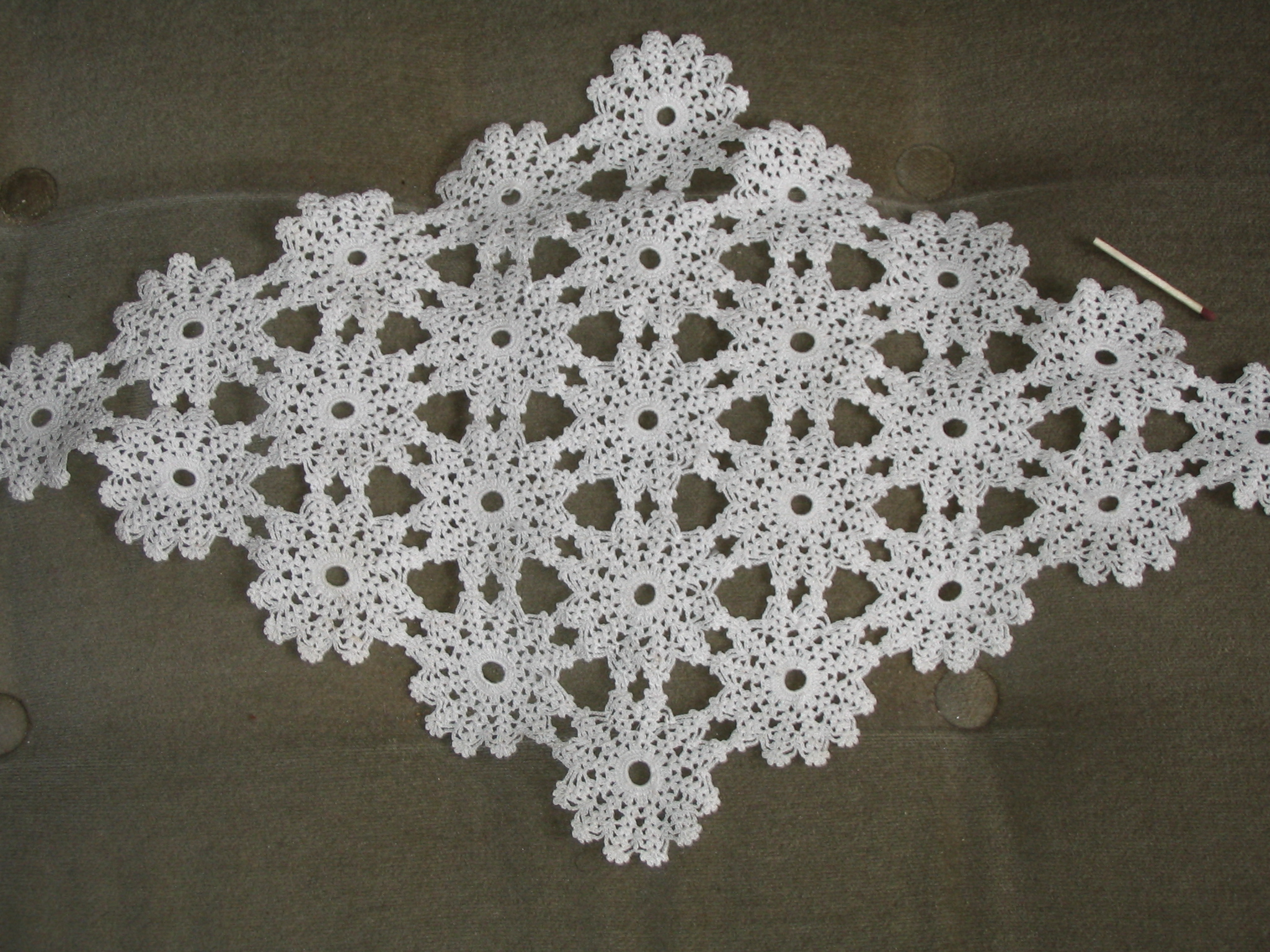 Small crocheted tablecloth. Made in Sweden about 1930.